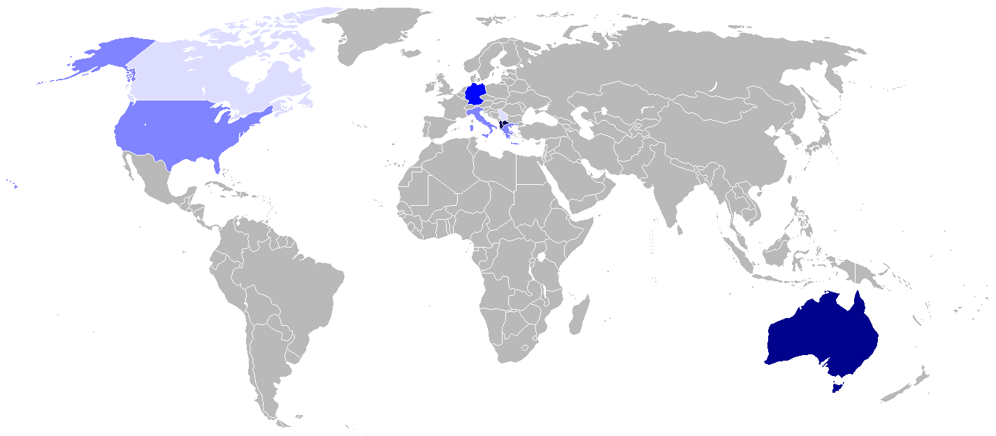 Map showing the presence of Macedonian speakers in the countries of the world by shades of blue, based on Image:BlankMap-World.png. The map shades the whole area within the national borders of each country with the colors defined in the legend below. NOTE: This map does not include the Slavic language spoken in Greece.